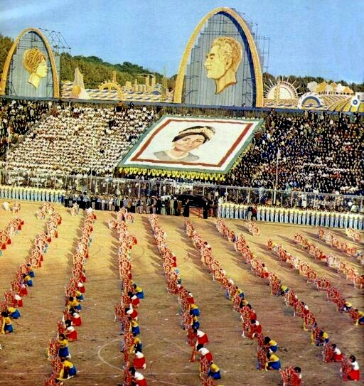 During the Tajgozari (Coronation) ceremony of Mohammad Reza Shah and Farah Pahlavi in Amjadieh Stadium in Tehran 1967